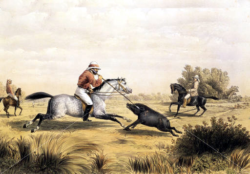 The Charge', 1861. Artist: Day & Son - Hog_Hunting_in_Bengal Percy Carpenter